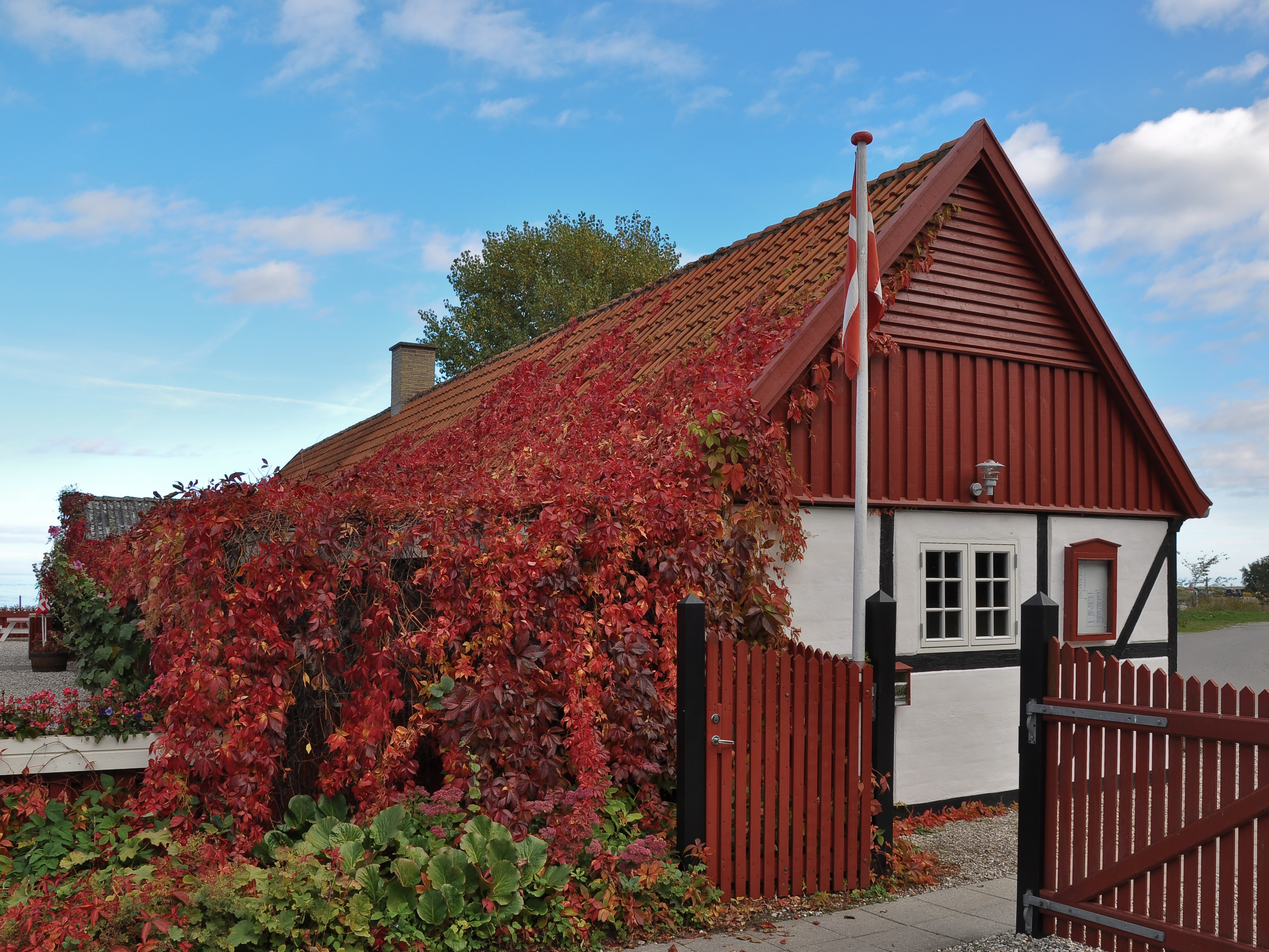 "Traktørstedet" near Gjorslev Bøgeskov on Stevns, Zealand, Denmark.